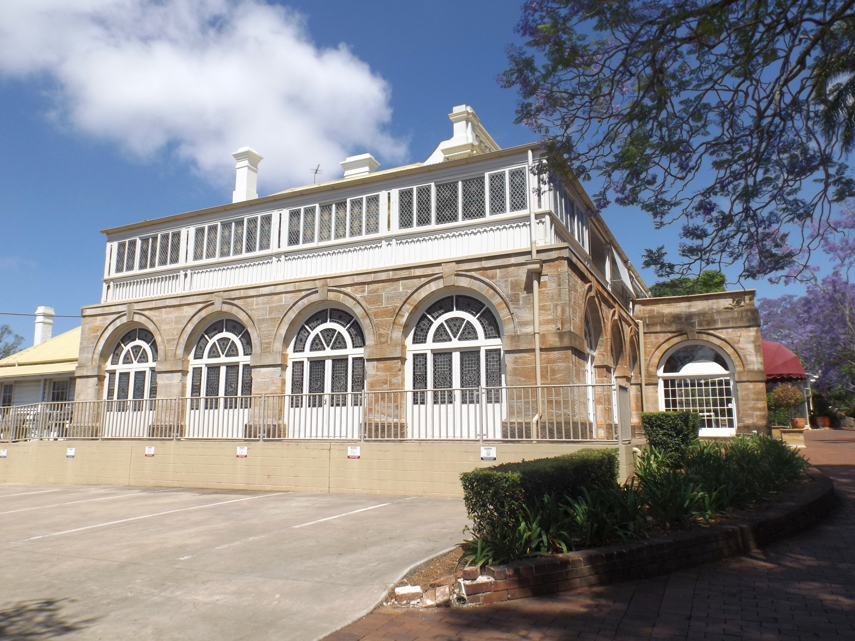 Photo of Clifford House from Clifford Street side in Toowoomba City, Queensland, Australia.